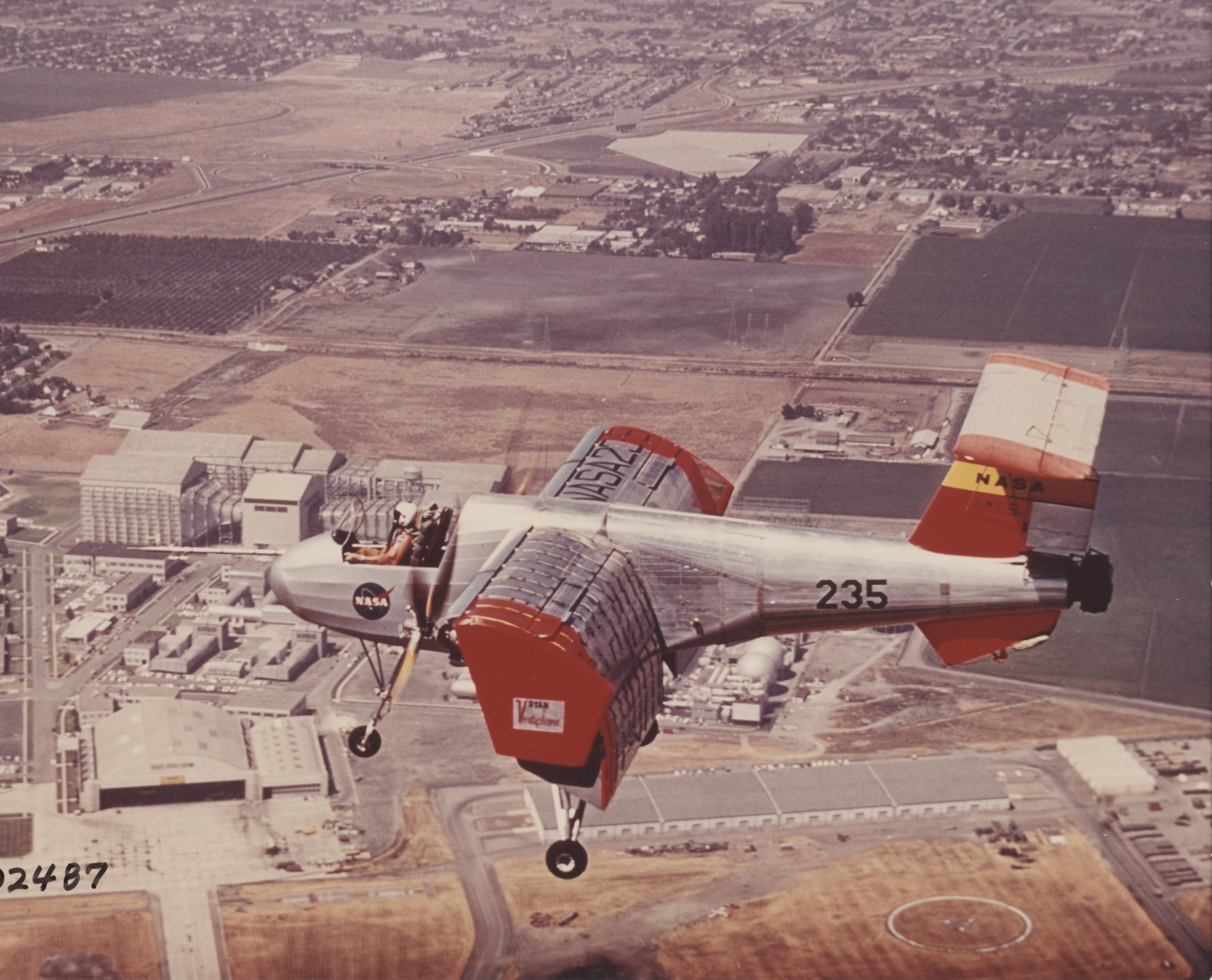 Ryan Vertiplane, photo from San Diego Air and Space Museum Archive Repository: San Diego Air and Space Museum Archive